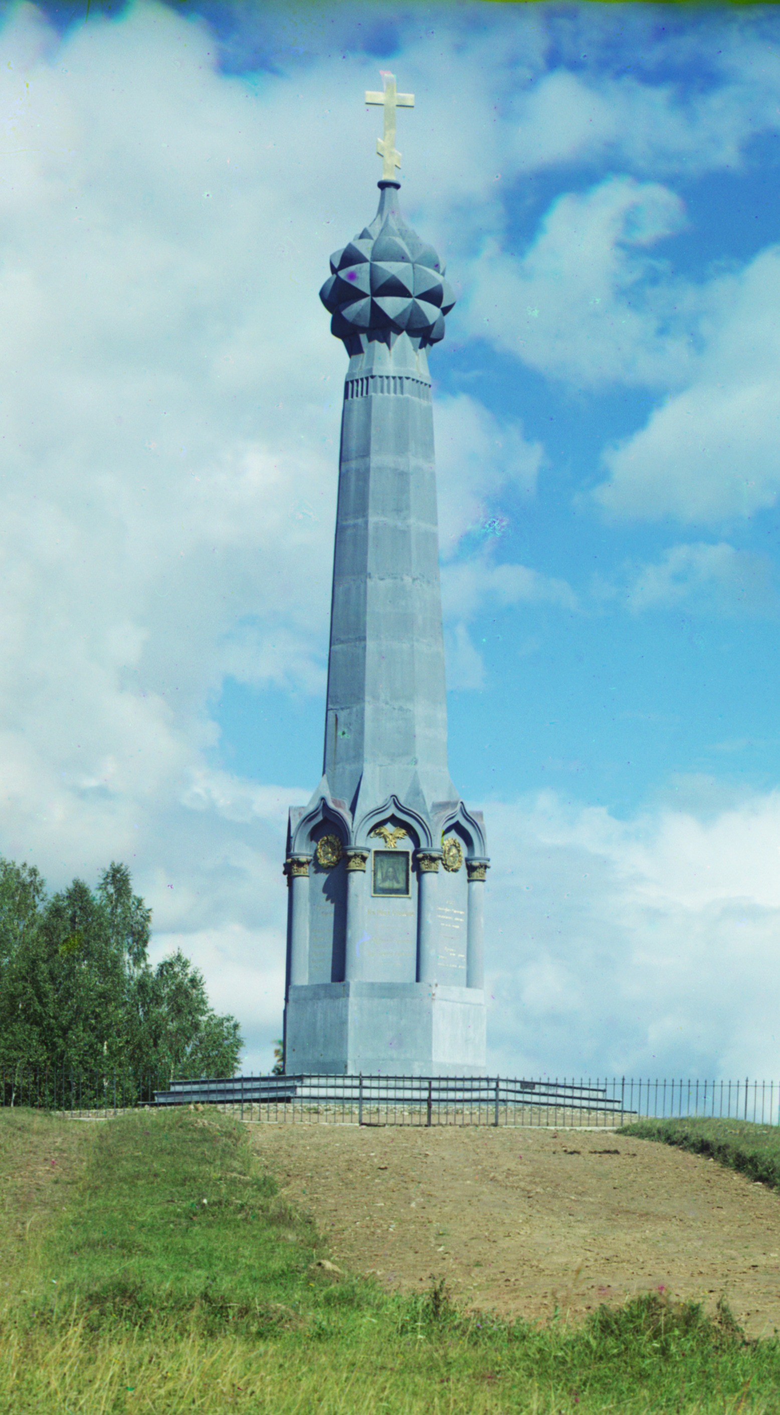 Monument on the Raevsky redoubt, near Mozhaisk, on the Borodino battlefield.